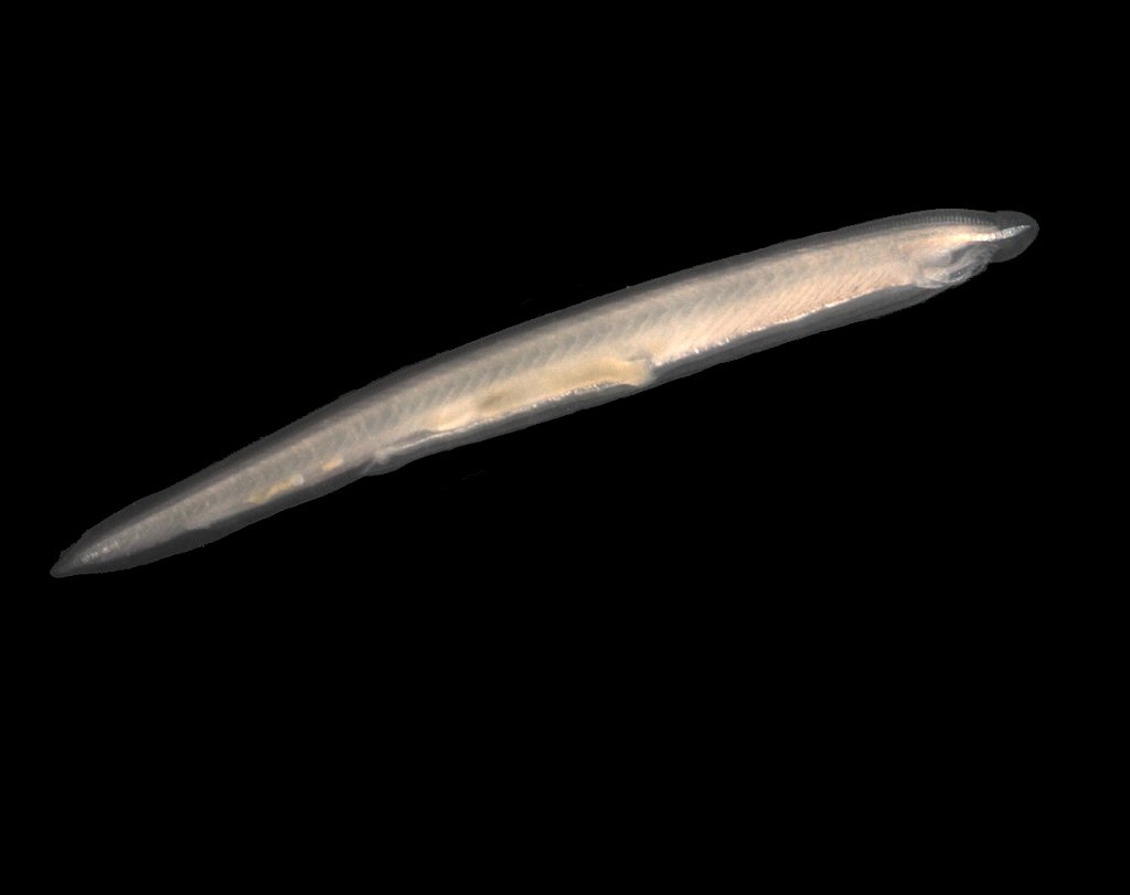 A Lancelet (or Amphioxus) specimen —Subphylum: Cephalochordata— collected in coarse sand sediments (600 µm) on the Belgian continental shelf. Total Length: approximately 22 mm. Geo-location not applicable as the picture was taken in the laboratory.